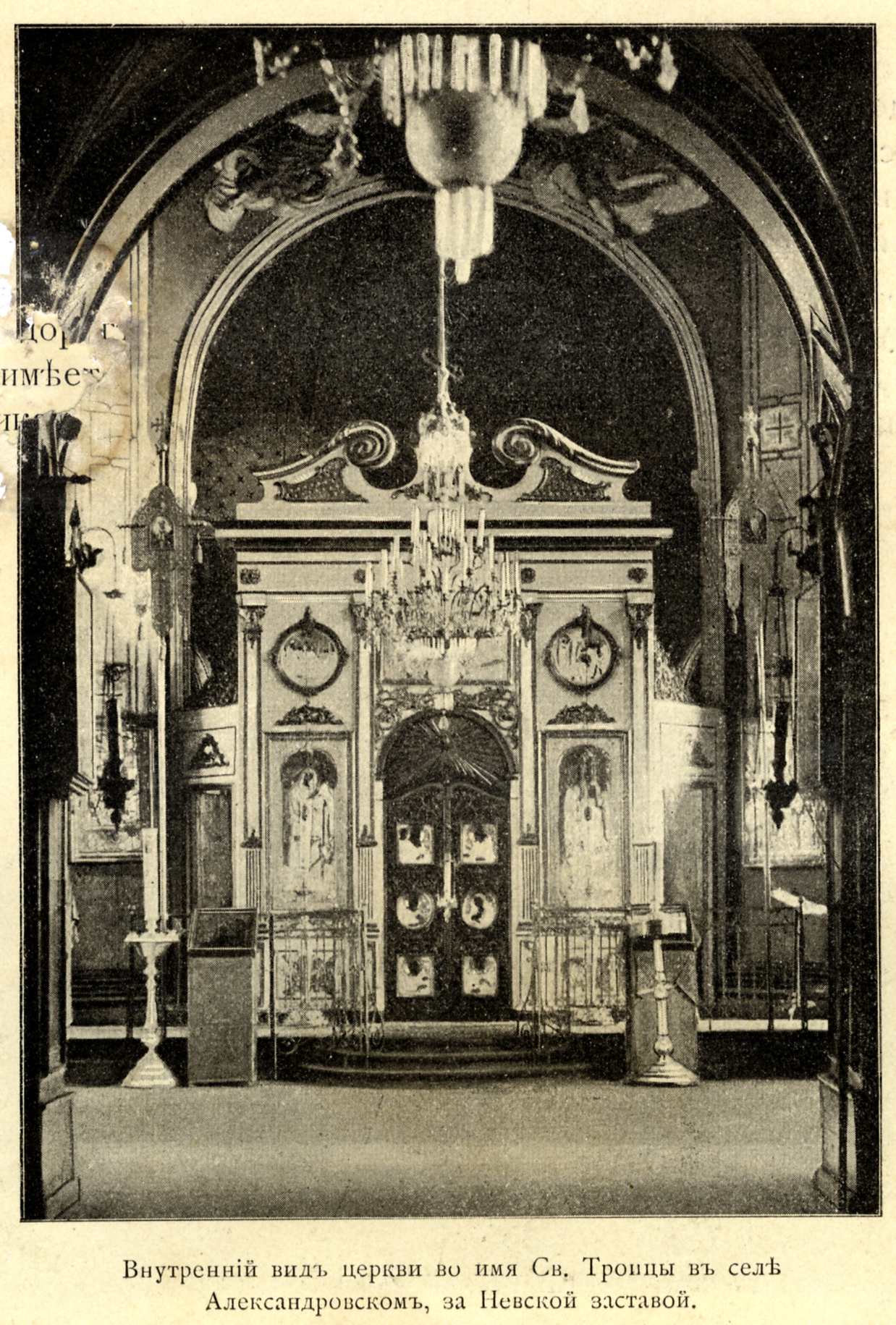 Saint Petersburg (Russia), Troitskaya church